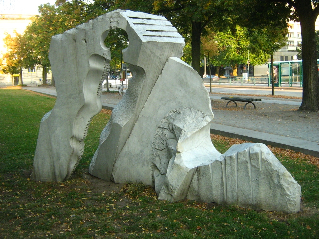 Sculpture by Mehmet Aksoy, 1989, in Potsdam, Germany